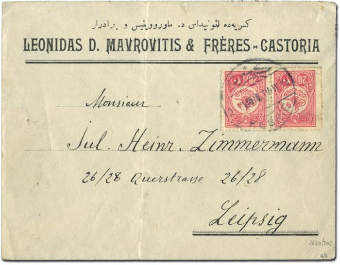 Letter from Leonidas D. Mavrovitis sent to Leipzig.